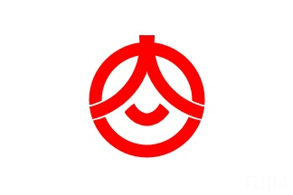 Flag of Onjuku Chiba